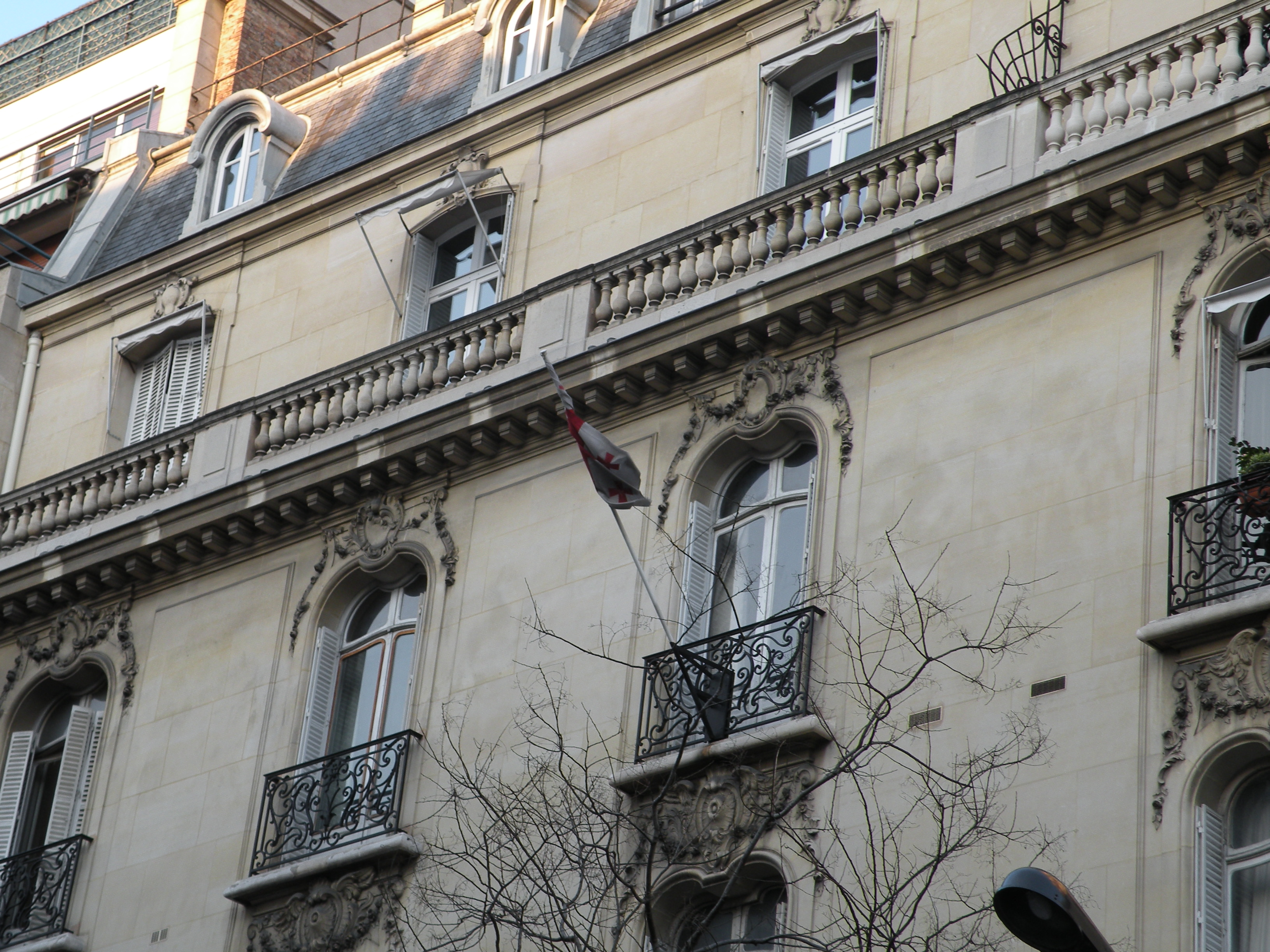 Georgian embassy in France, Paris